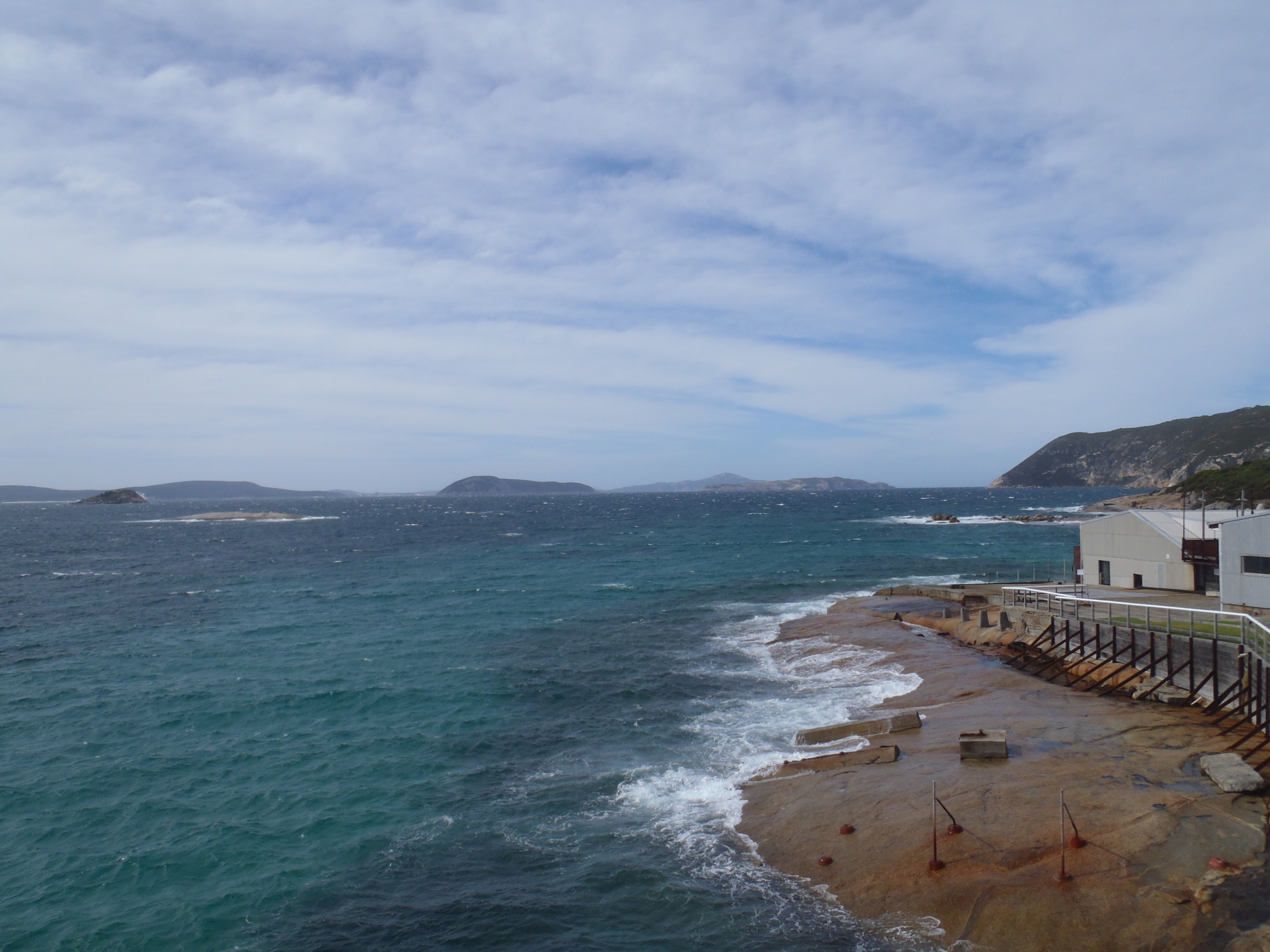 Princess Royal Harbour from Whaleworld